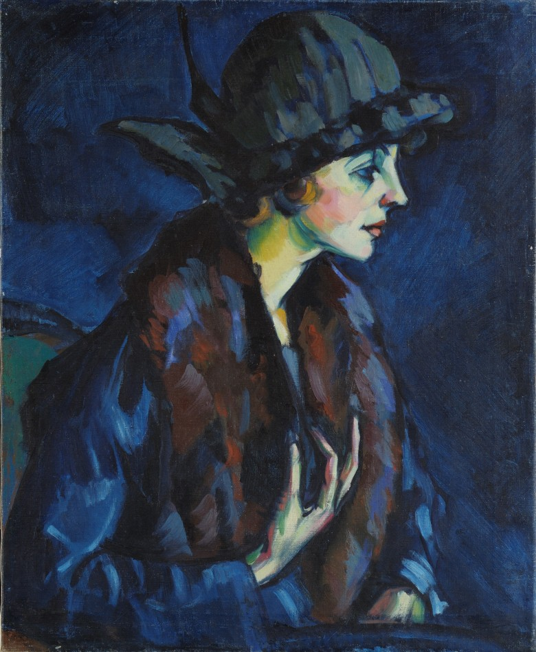 Konrad Mägi "Portrait of a woman", 1918-1920, oil on canvas, 68 x 55